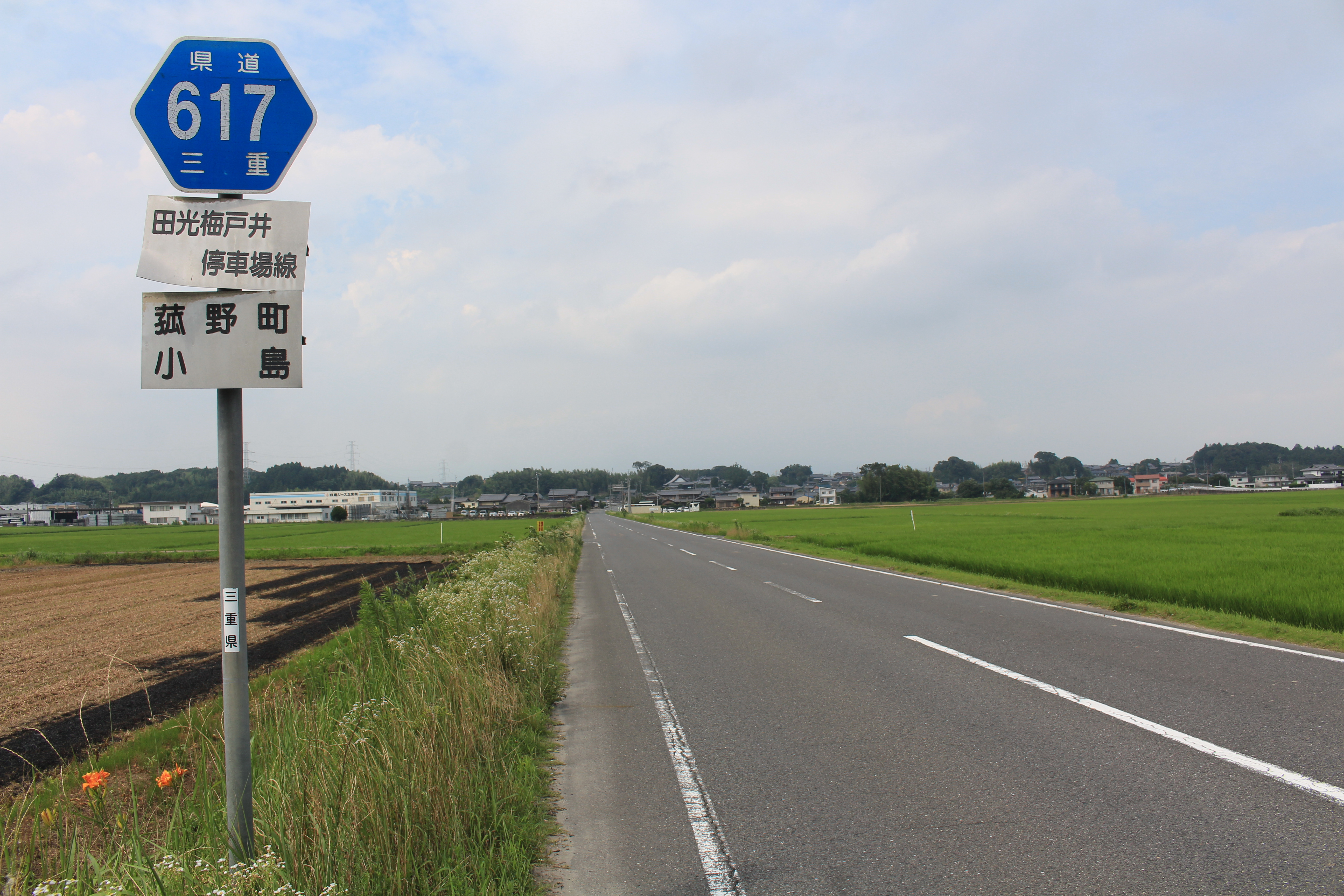 Mie Prefectural Road Route 617 in Ojima, Komono, Mie Prefecture, Japan.